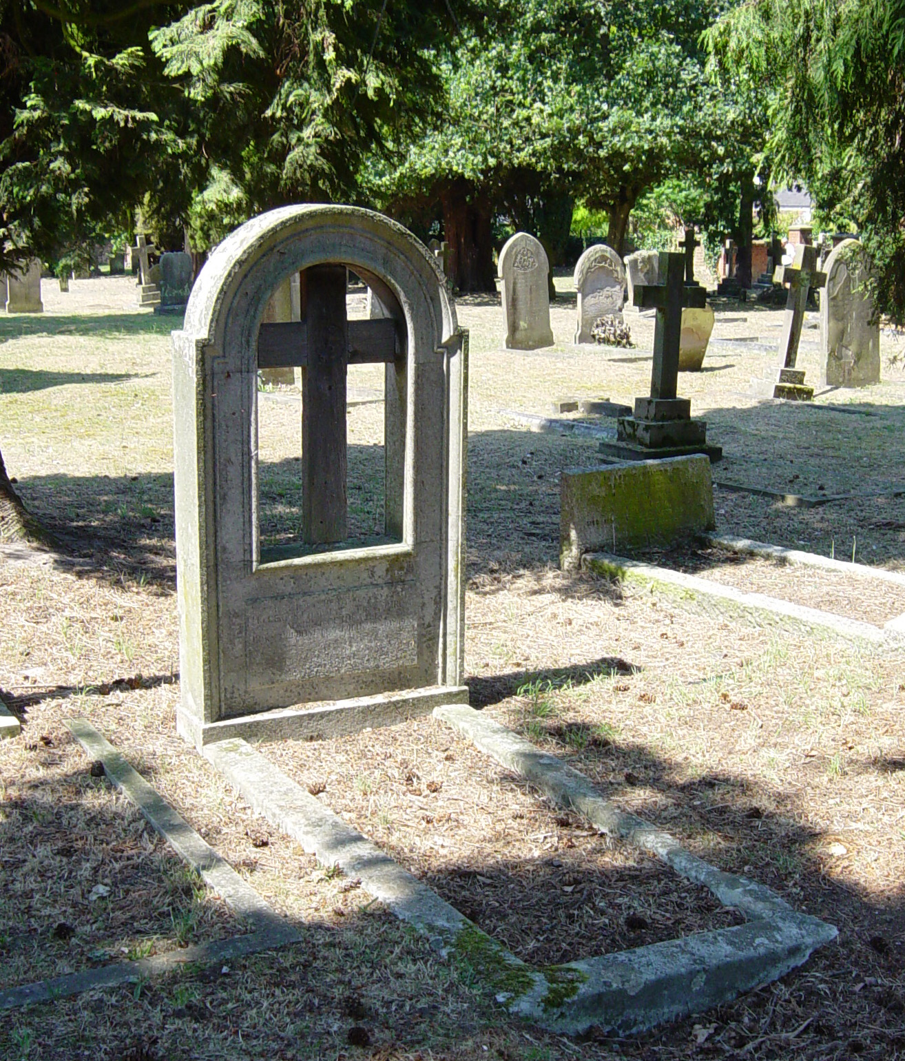 I took this photograph of Admiral Sir Frederick Charles Doveton Sturdee's gravestone, a clean hollowed cross set in a large rounded engraved stone in the churchyard of St Peter's Church, Frimley, today. I've cropped it slightly in PhotoShop.